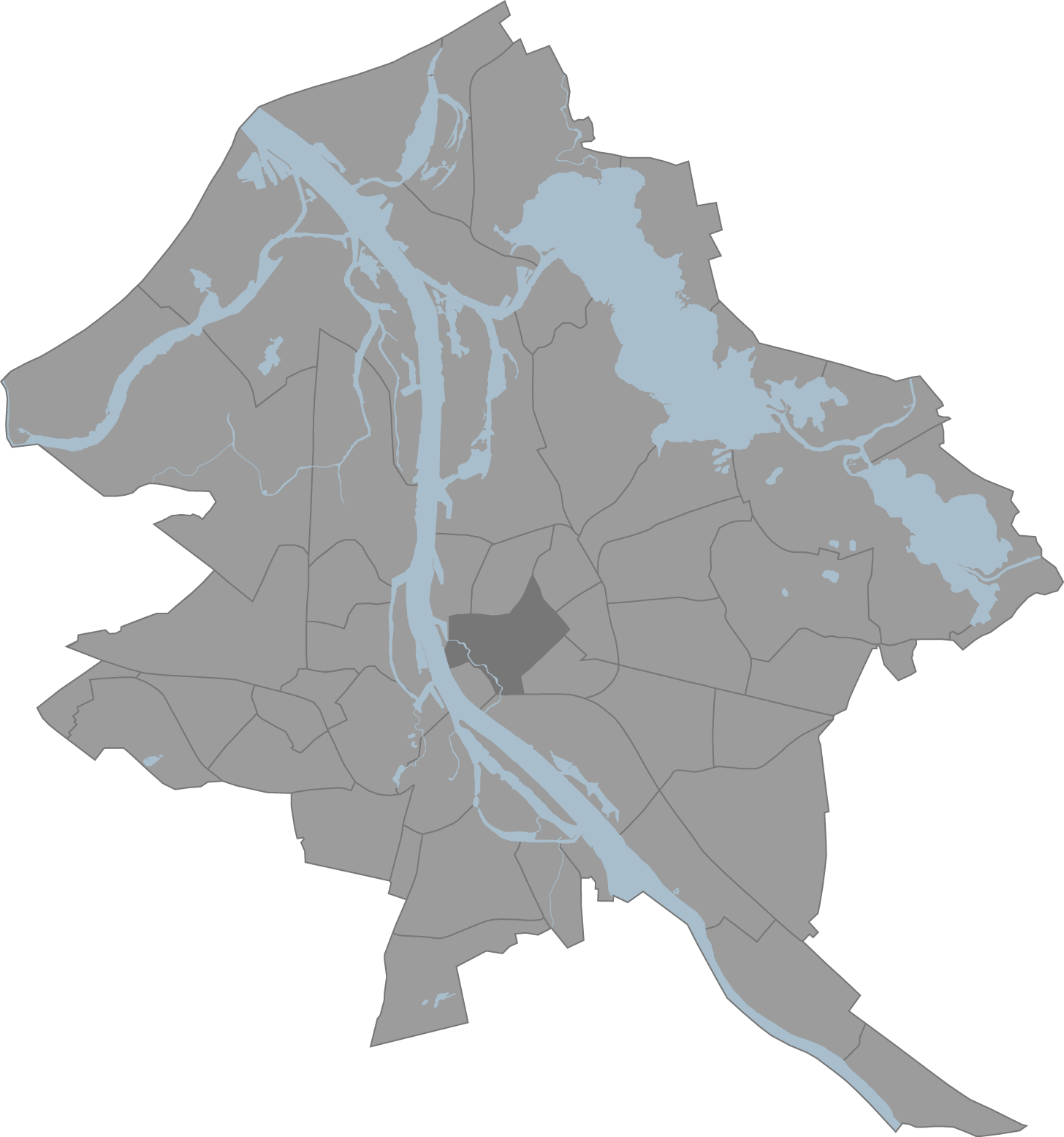 A map of Riga, Latvia with the eponymous commune highlighted